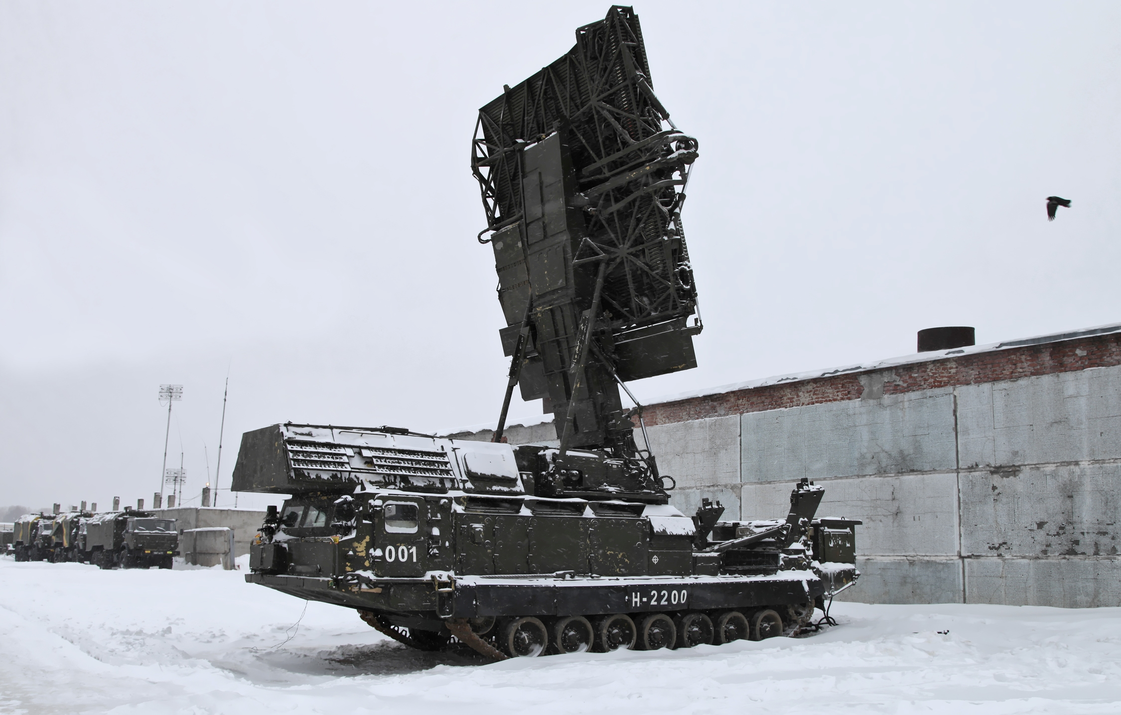 The 202nd Air Defence Brigade in the Western Military District in Russia. This air defence brigade is equipped with S-300V-SAMs. This brigade received these systems in 1989.